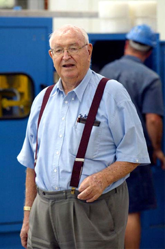 Joe at work.